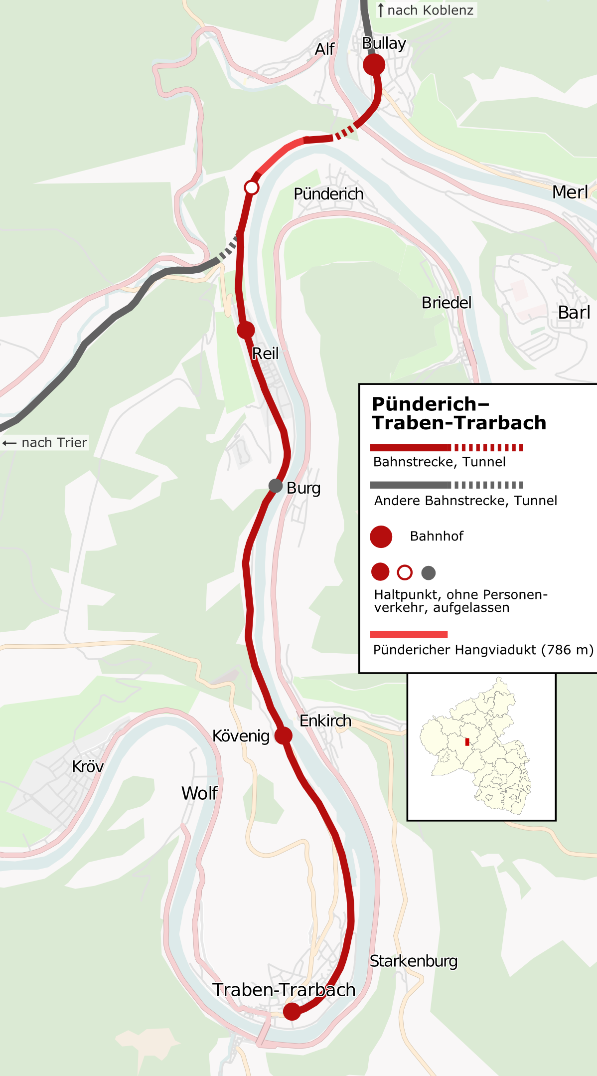 Map of Pünderich–Traben-Trarbach railway in Rhineland-Palatinate, Germany This map may be incomplete, and may contain errors. Don't rely solely on it for navigation.